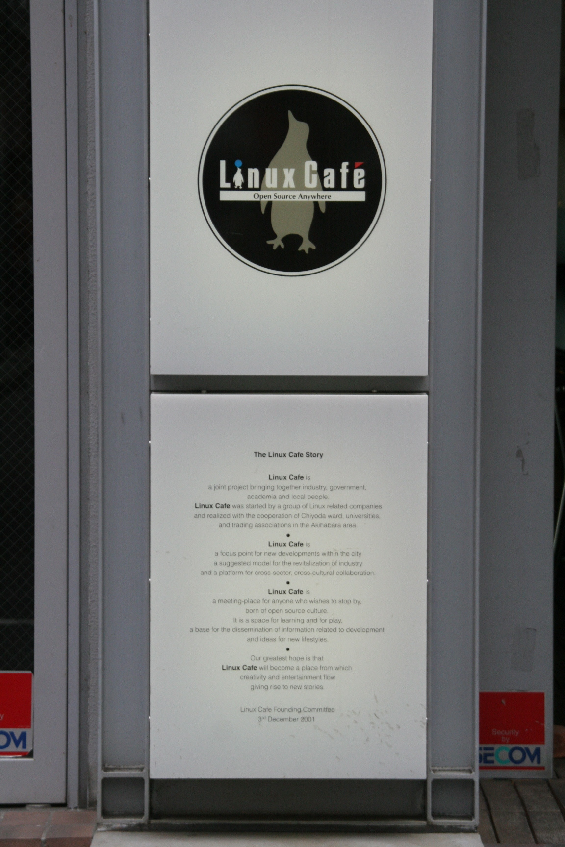 Signboard of Linux Café